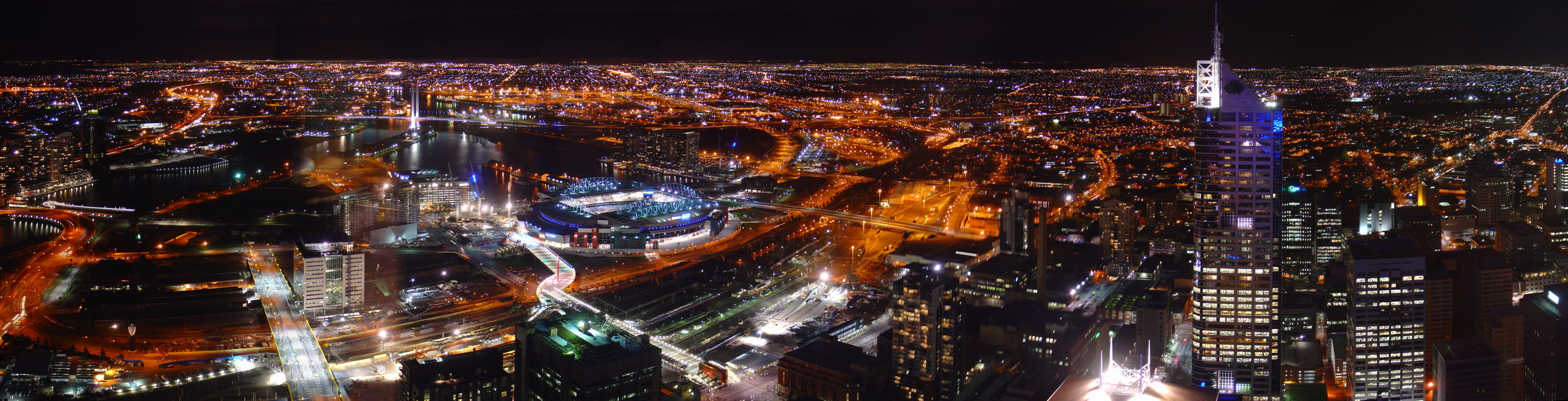 Photographer: User:Vincentshia (Vincent Pac Soo) Website: Vincent's Space Category:Images of Melbourne